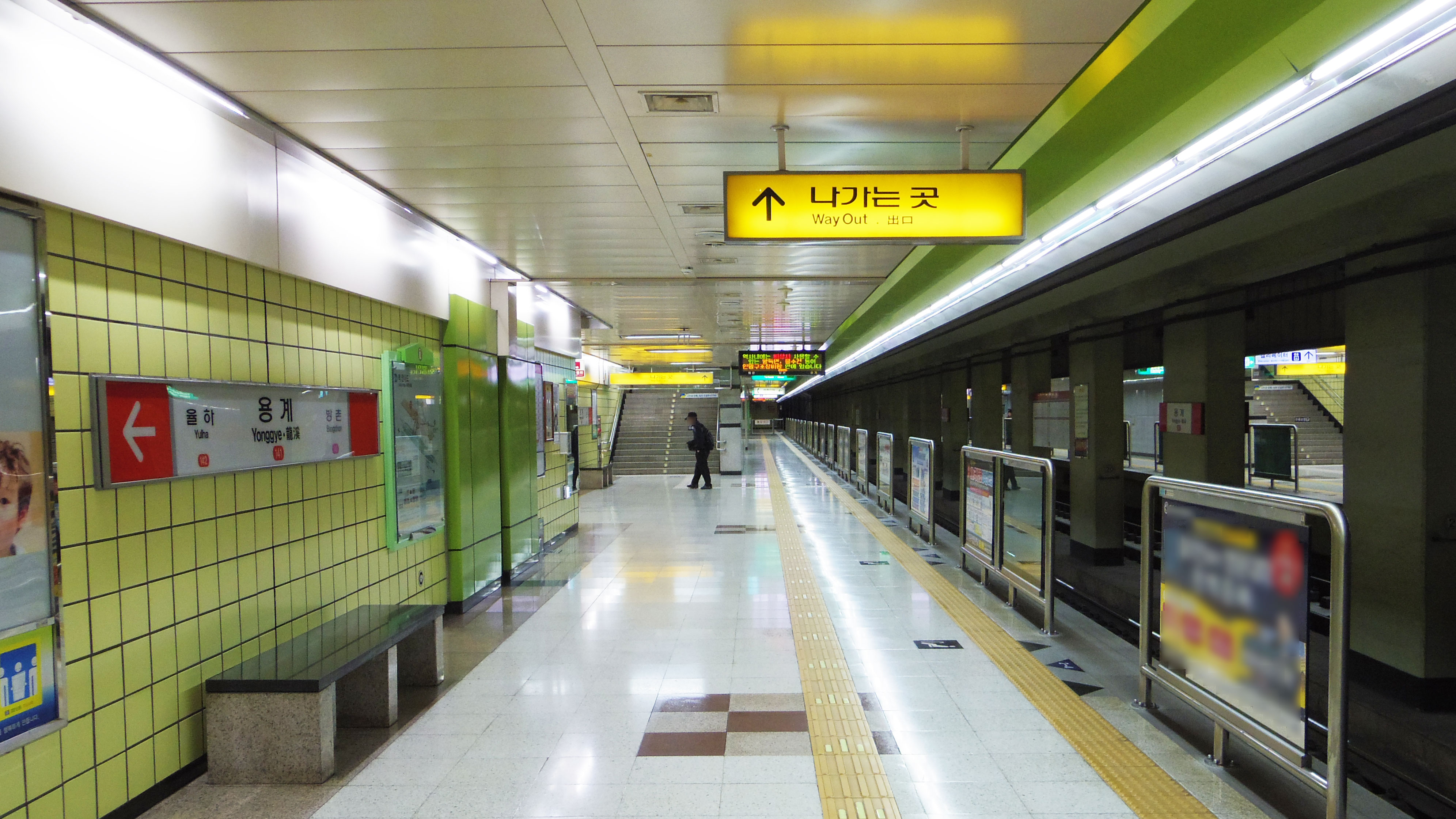 The platform of Yonggye Station on the Daegu Metro Line 1, for Yulha, Ansim